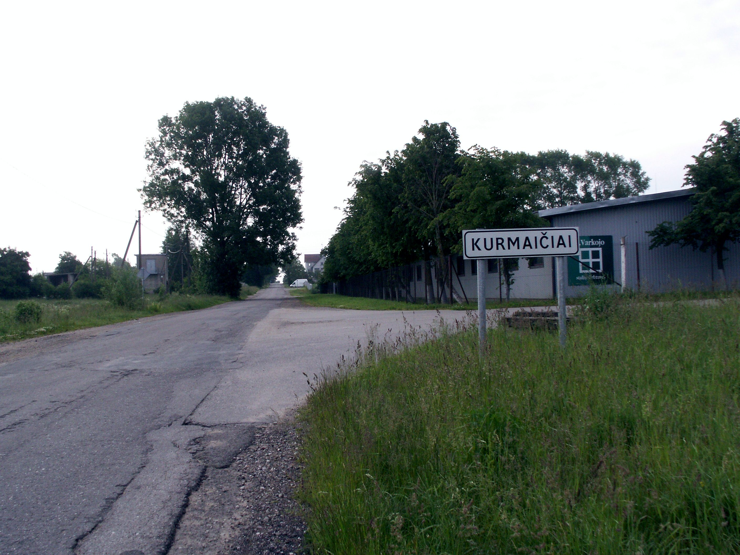 Kurmaičiai, Lithuania